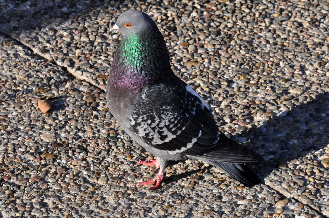 Rock pigeon male trying to impress female in Altona